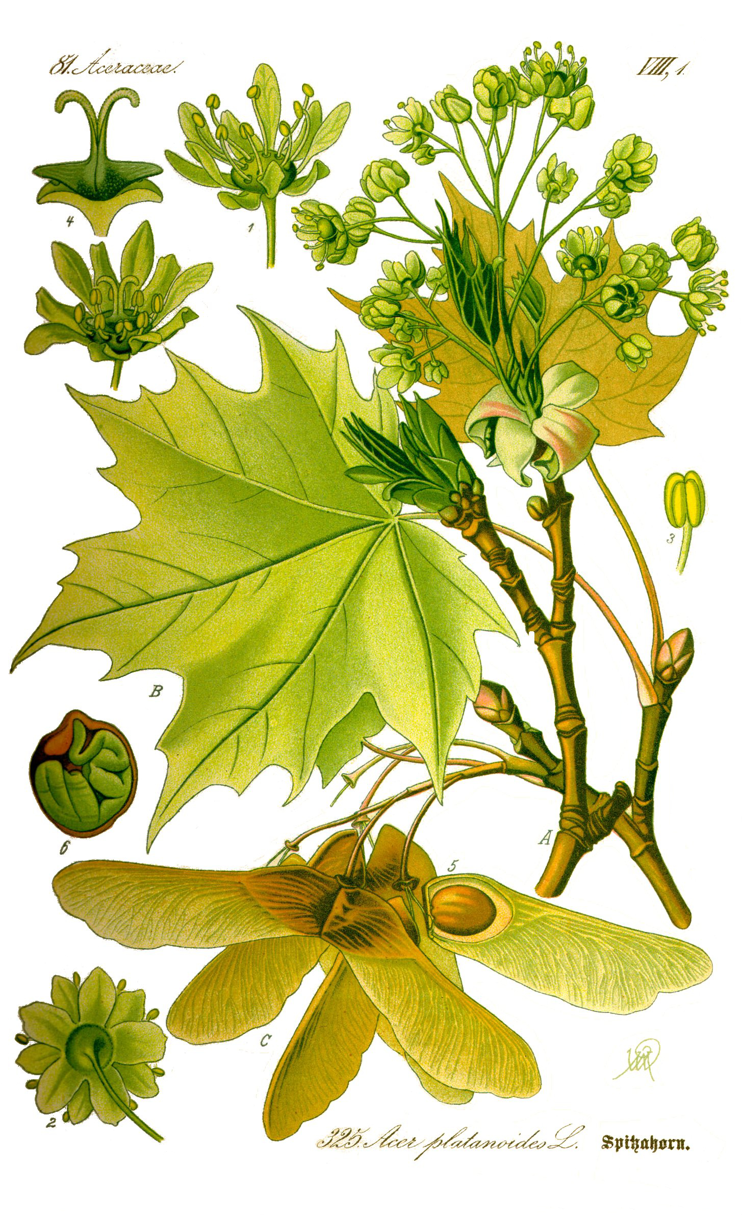 Acer platanoides, Clean version of Image:Illustration_Acer_platanoides0.jpg